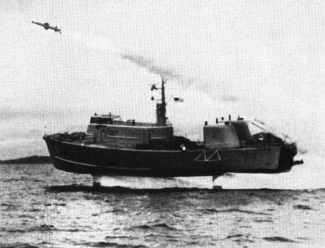 The U.S. Navy hydrofoil USS High Point (PCH-1) launching an early RGM-84 Harpoon missile which was then still under development.